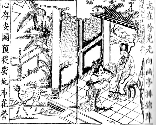 A Qing Dynasty illustration of a scheme being set up between Wang Yun and Diaochan.